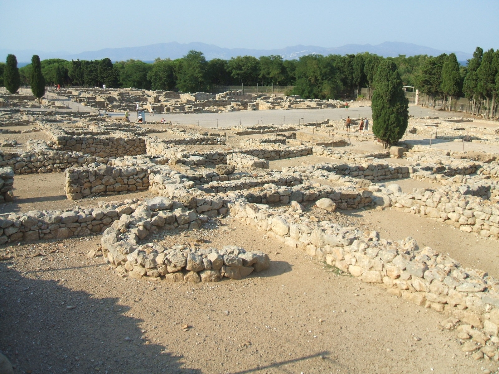 Empuries Archaeological Site (Catalunya, Spain) : Greek ruins of Neapolis ; northeastern view looking towards the Agora.